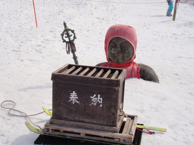 a guardian deity of children in zao